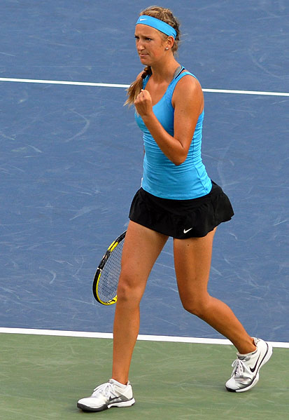 Victoria Azarenka at the 2011 Rogers Cup